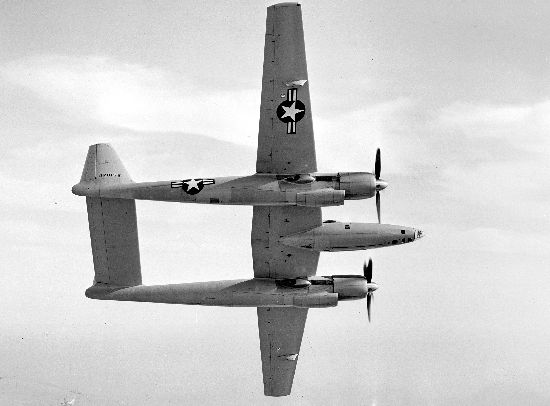 Hughes XF-11, second prototype.